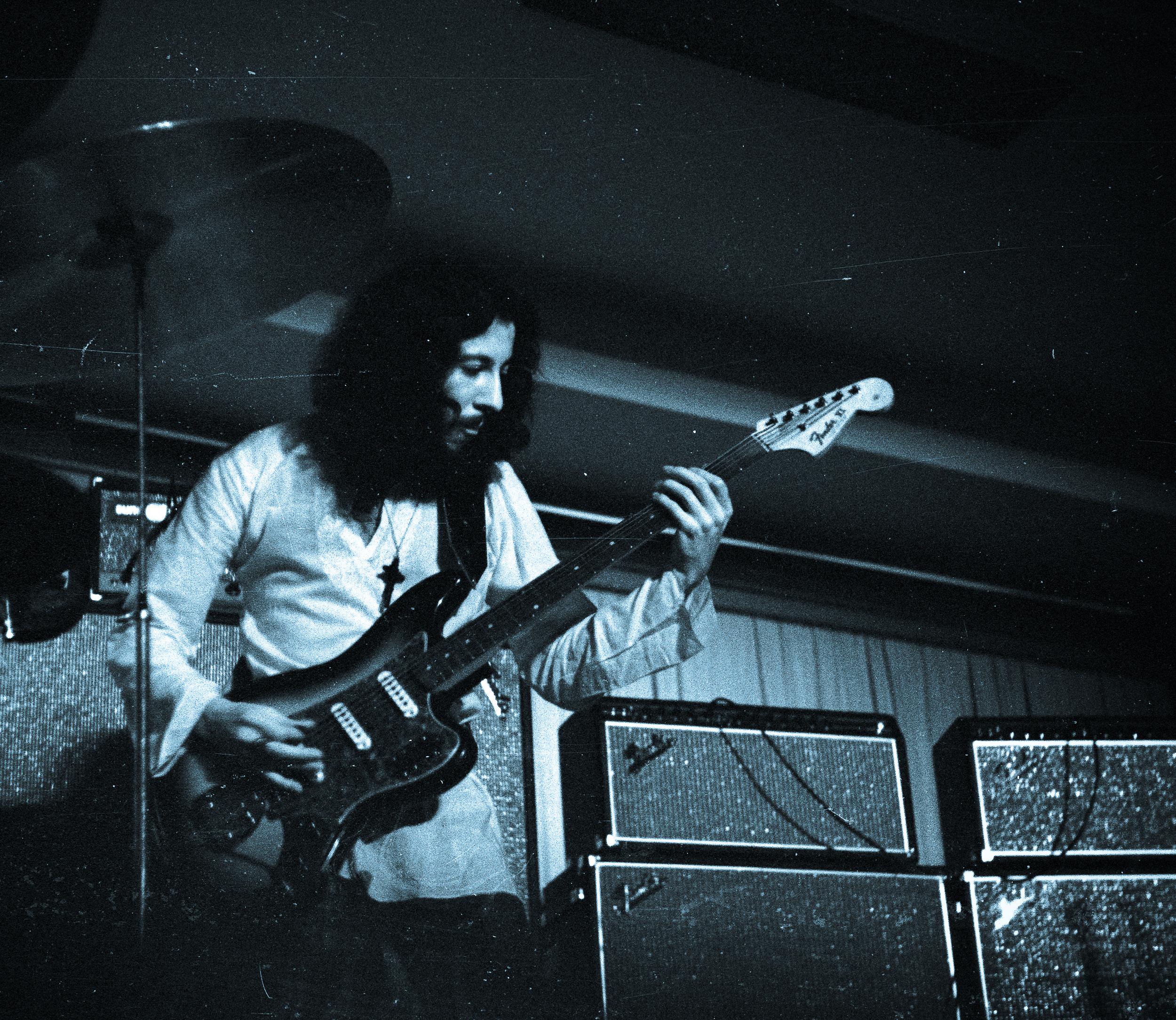 Peter Green, Fleetwood Mac, March 18, 1970 Niedersachsenhalle, Hannover, Germany, The Touring Band: Mick Fleetwood - Percussion, Peter Green - Lead Vocals/Guitar/Harmonica (left band in May), John McVie - Bass Guitar, Jeremy Spencer - Vocals/Guitar, Danny Kirwan - Vocals/Guitar